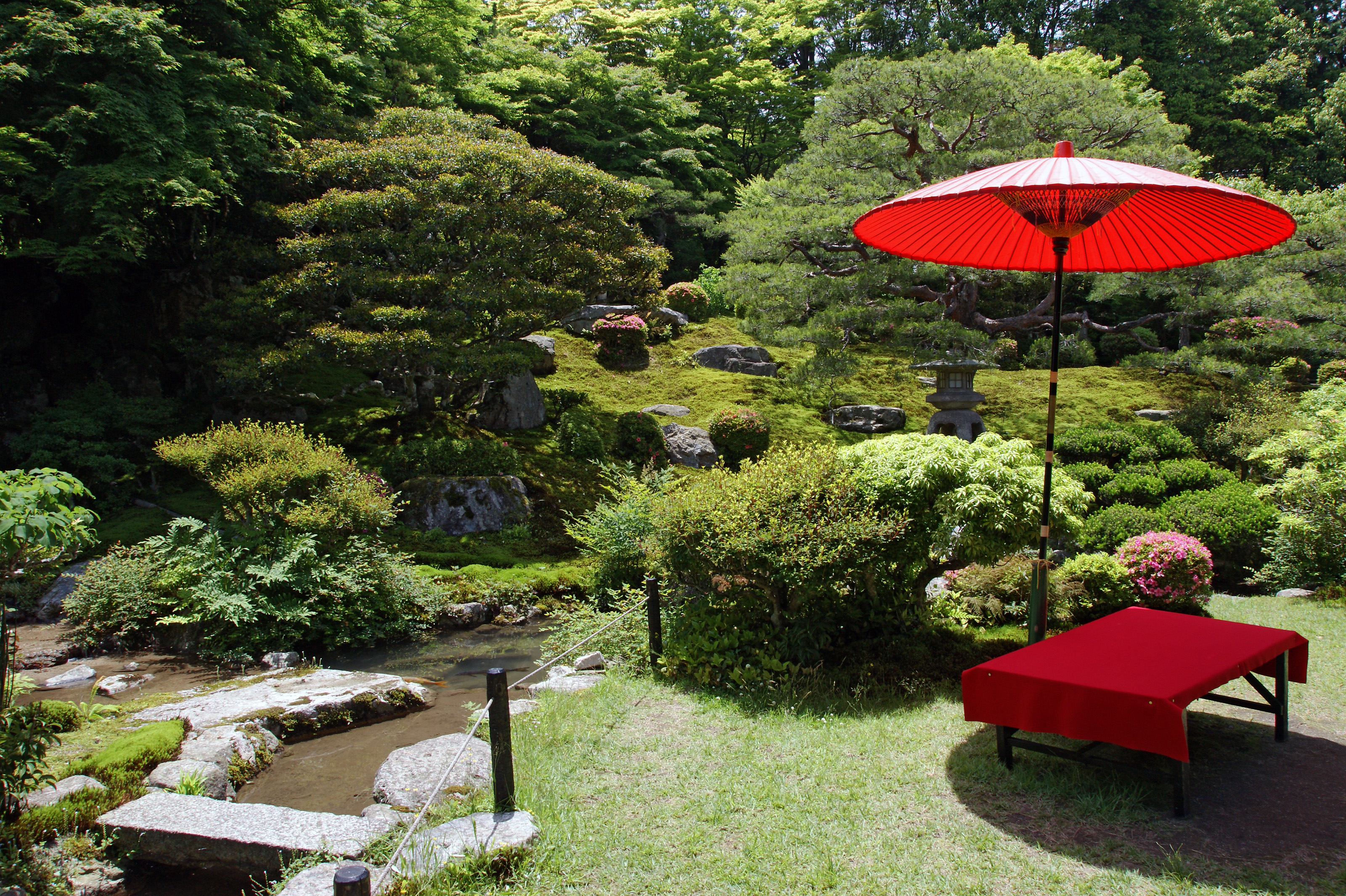 Old Chikurinin in Sakamoto, Otsu, Shiga prefecture, Japan